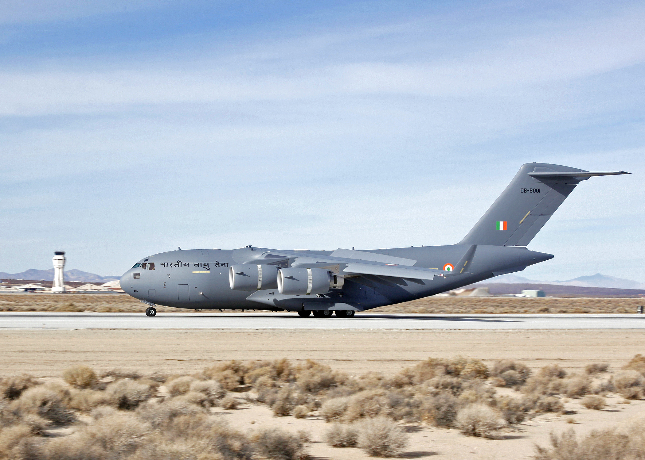 The first C-17 heavy-lift aircraft built for the Indian Air Force arrived at Edwards Jan. 22. The 418th Flight Test Squadron will begin aircraft inspection and routine flight testing for the next two months.